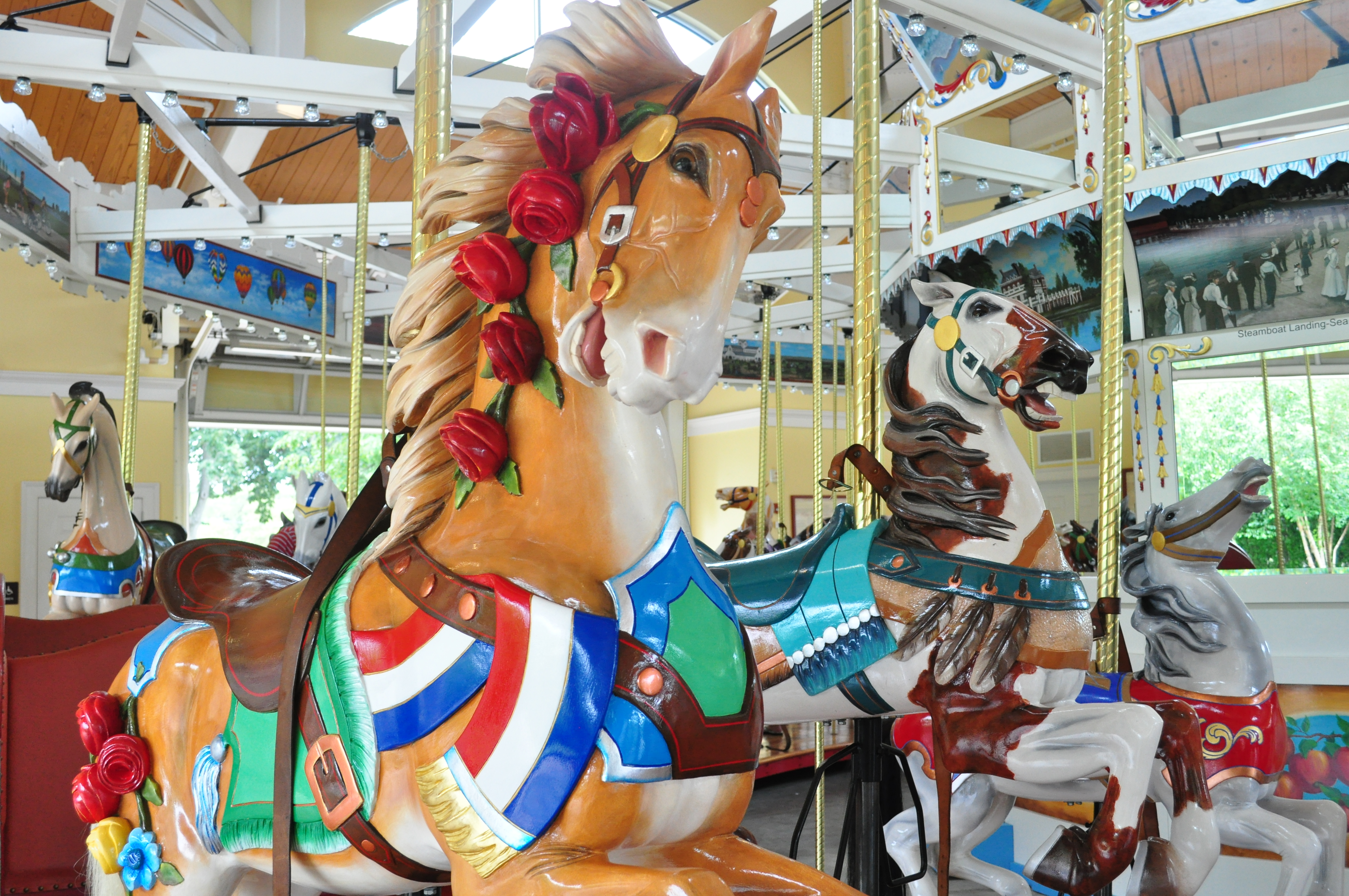 Nunley's Carousel at the Cradle of Aviation Museum, East Garden City, New York.